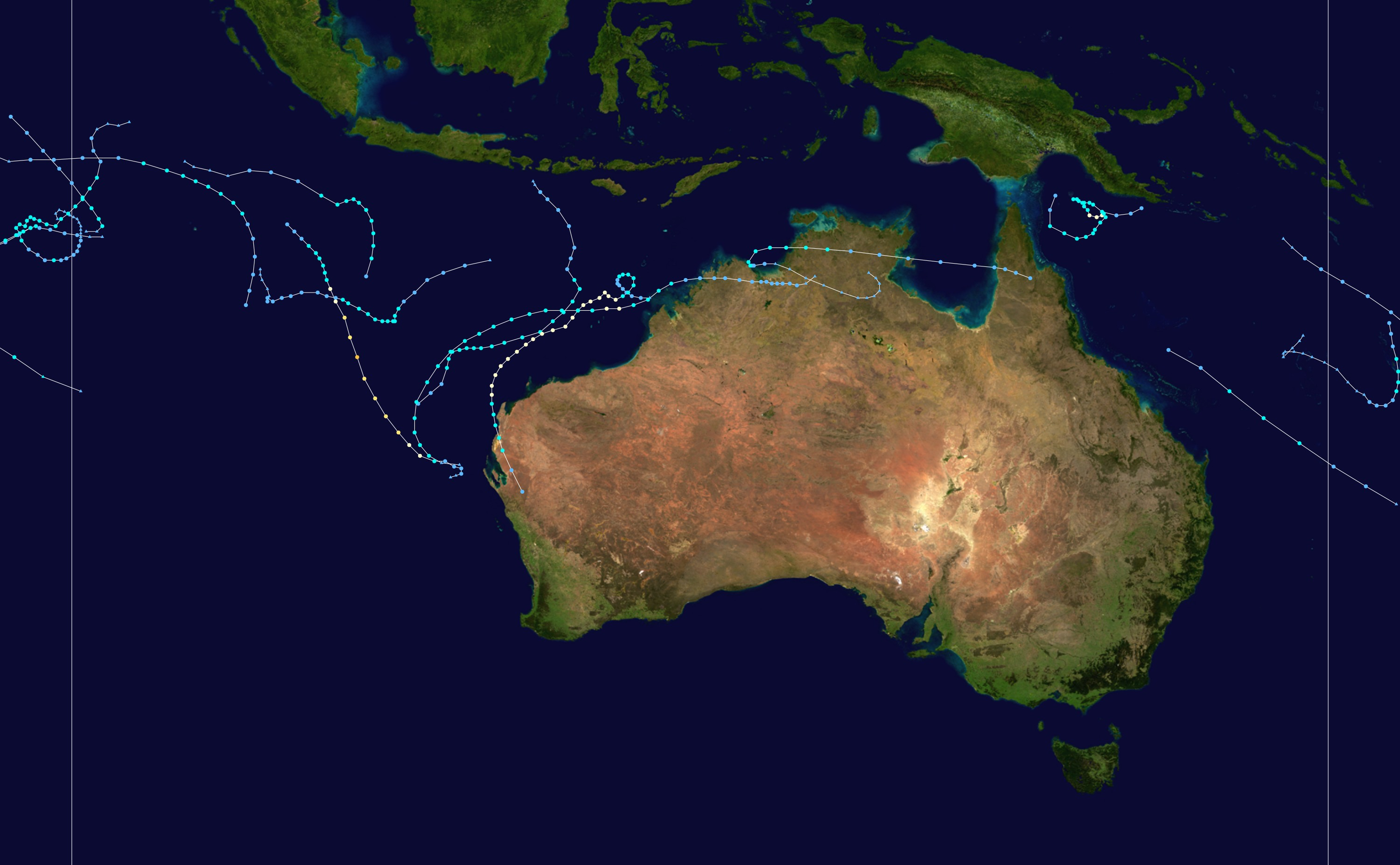 This map shows the tracks of all tropical cyclones in the 2007-08 Australian region cyclone season. The points show the location of each storm at 6-hour intervals. The colour represents the storm's maximum sustained wind speeds as classified in the Saffir-Simpson Hurricane Scale (see below), and the shape of the data points represent the type of the storm. Saffir–Simpson hurricane wind scale Tropical depression≤38 mph≤62 km/h Category 3111–129 mph178–208 km/h Tropical storm39–73 mph63–118 km/h Category 4130–156 mph209–251 km/h Category 174–95 mph119–153 km/h Category 5≥157 mph≥252 km/h Category 296–110 mph154–177 km/h Unknown Storm typeTropical cycloneSubtropical cycloneExtratropical cyclone / Remnant low / Tropical disturbance